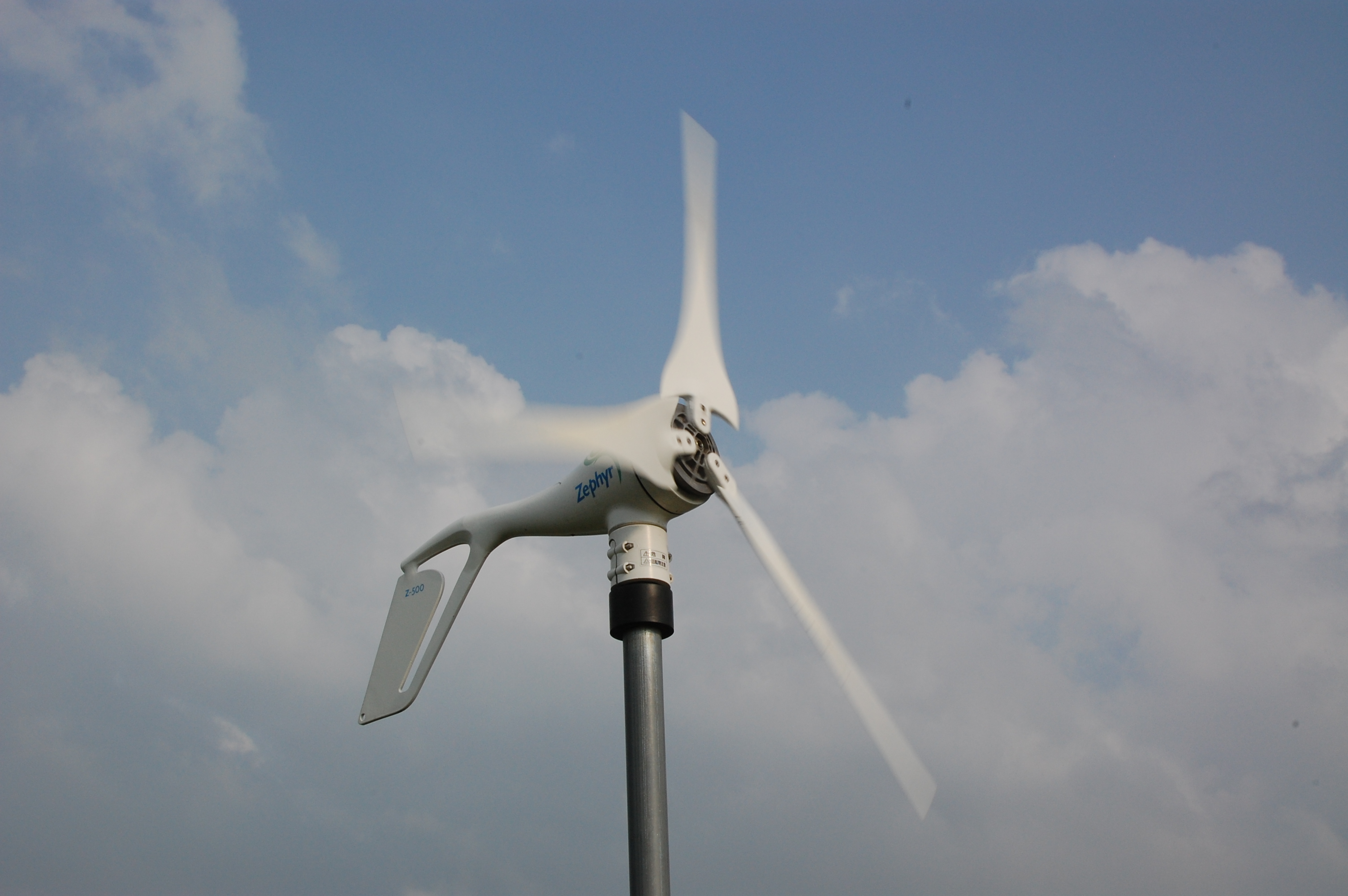 HUUSYA